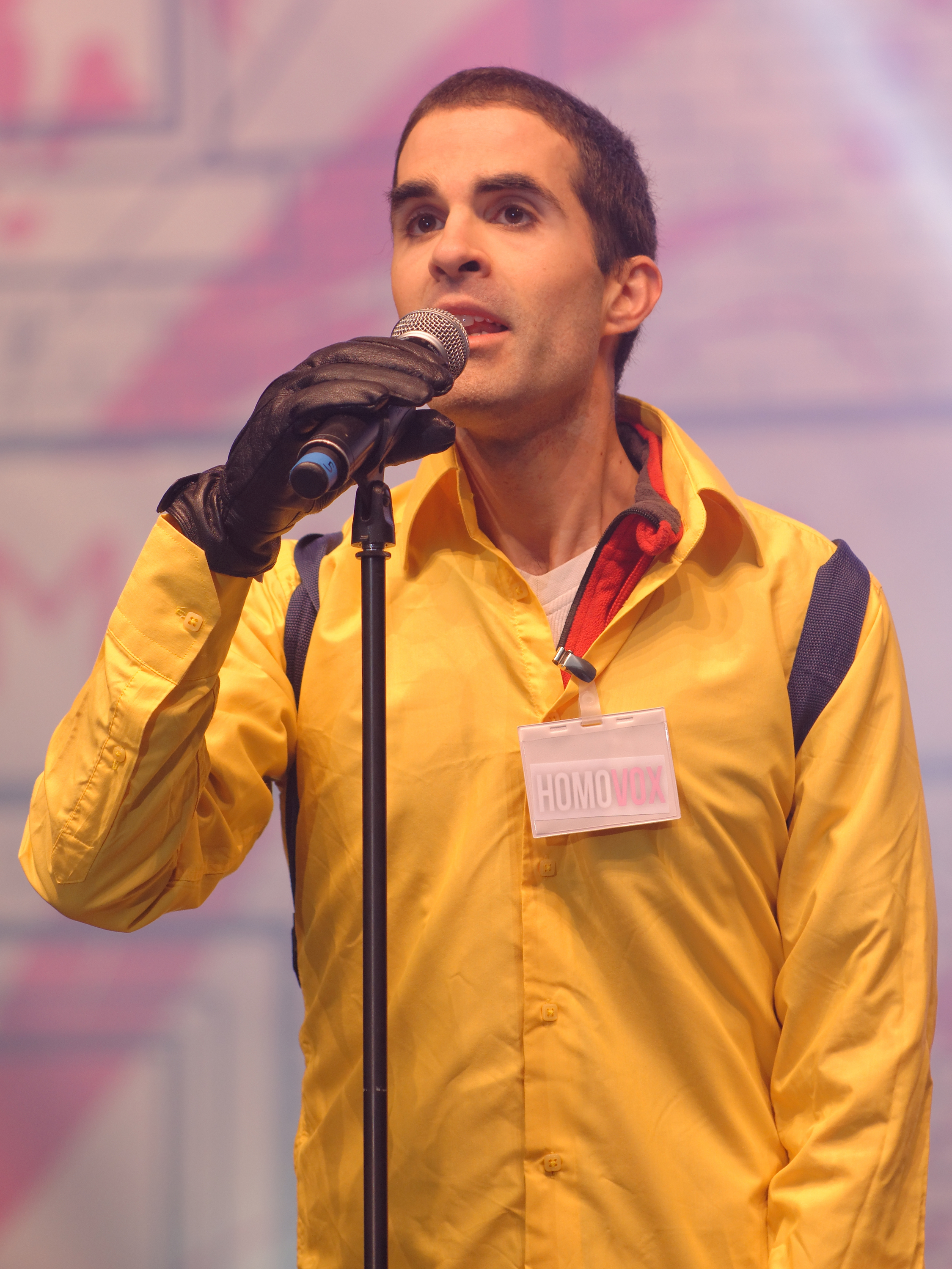 Philippe Ariño speaking on the podium during the demonstration against same-sex marriage in Paris on 13 January 2013 (“Manif pour tous”).